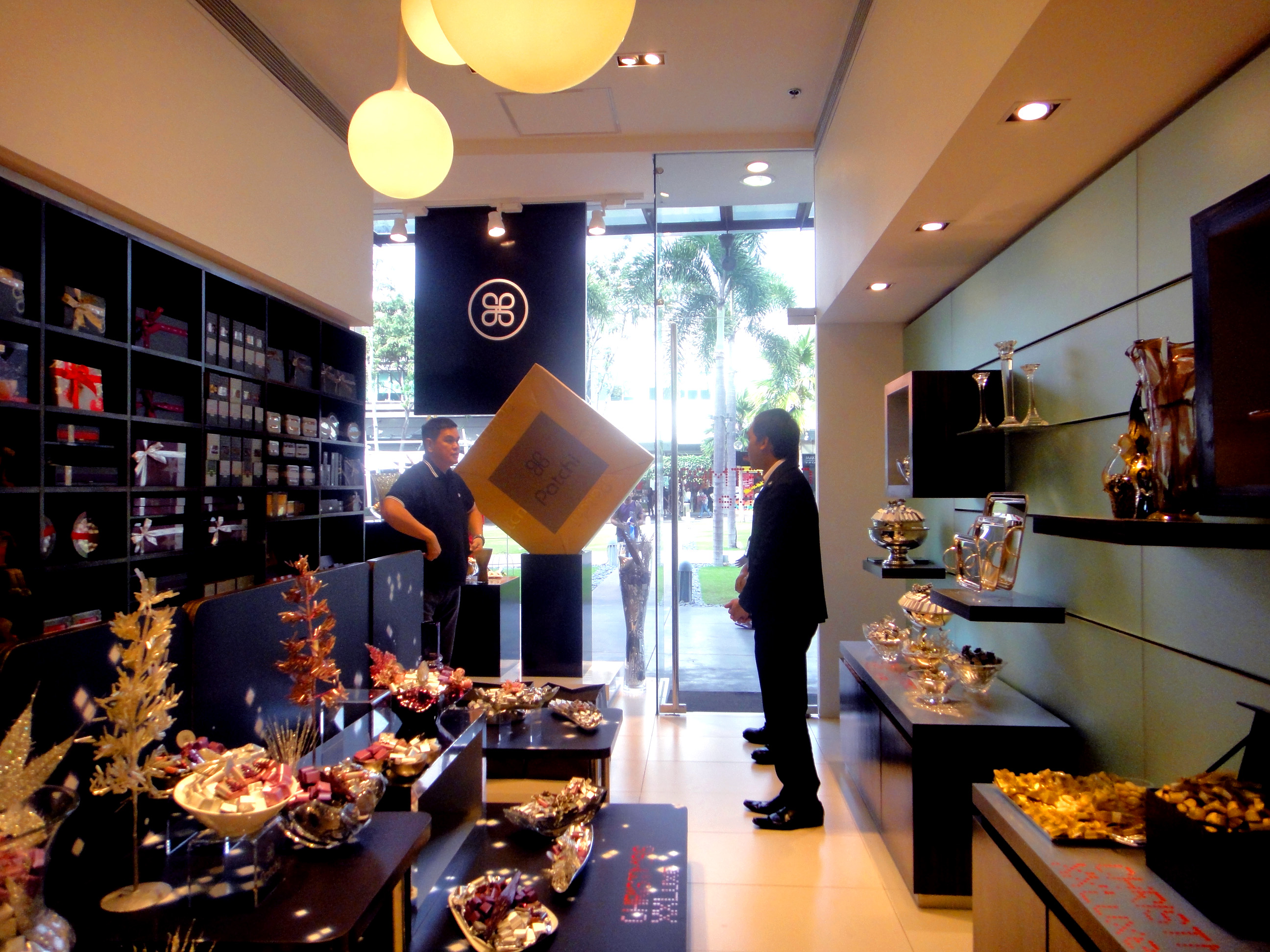 Patchi Shop at Bonifacio High Street, Taguig, Philippines